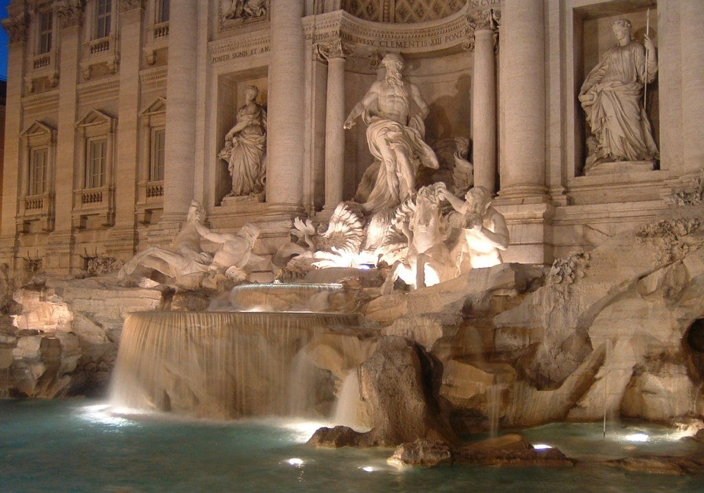 Trevi Fountain